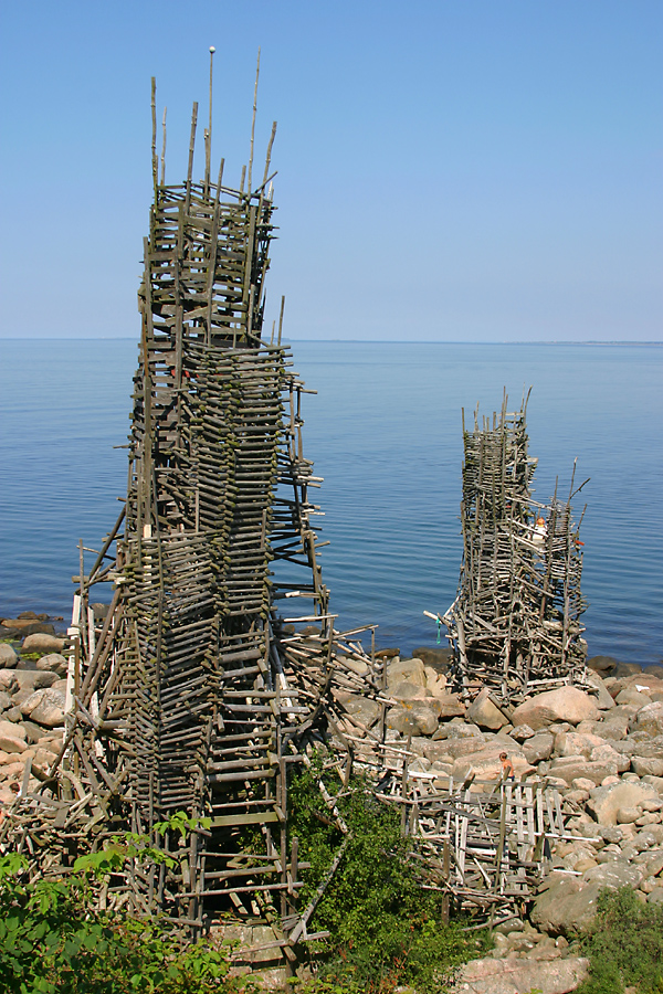 Driftwood statue Nimis